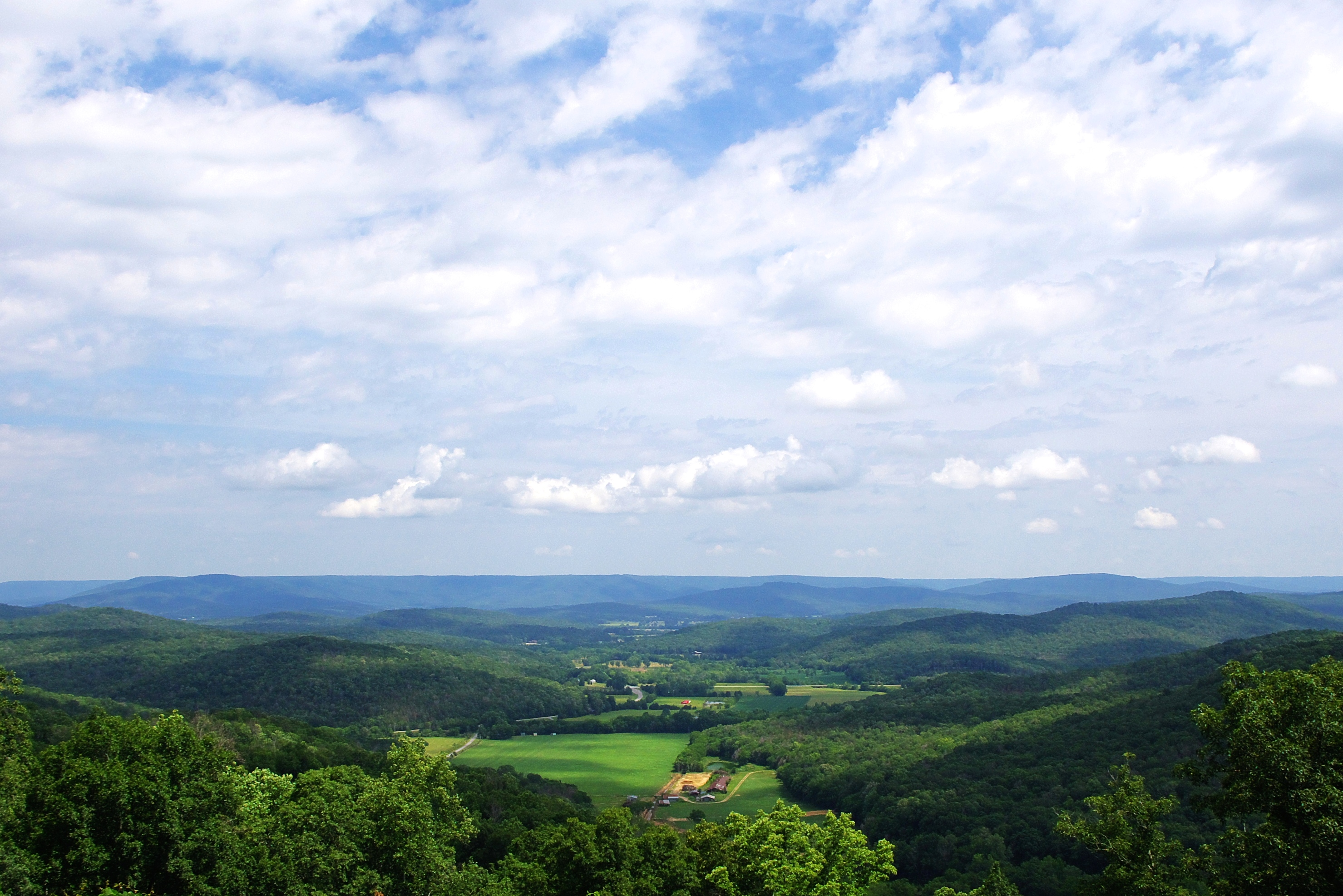 View from the overlook near the DAR School in Grant, Alabama, United States. Kennamer Cover is below.